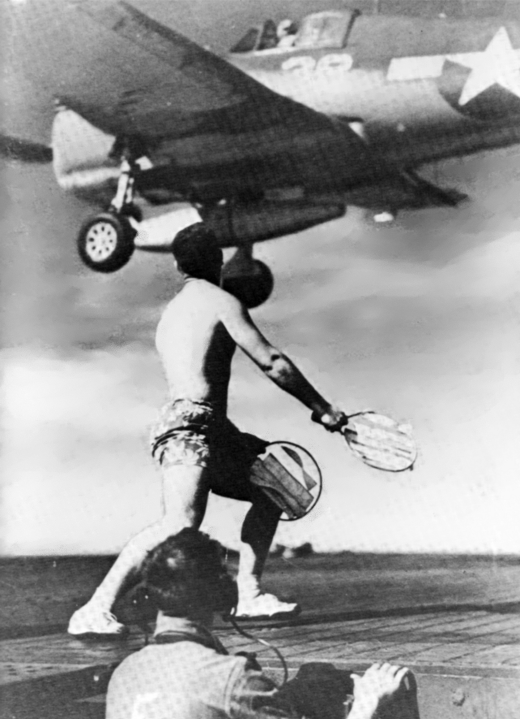 The U.S. Navy Landing Signal Officer aboard the aircraft carrier USS Yorktown, Lt. Richard (Dick) C. Tripp, with a Grumman F6F-3 Hellcat landing. Note that he is wearing tennis shoes and floral pattern shorts! Tripp directed more than 10,000 carrier deck landings from 1943 to 1945.